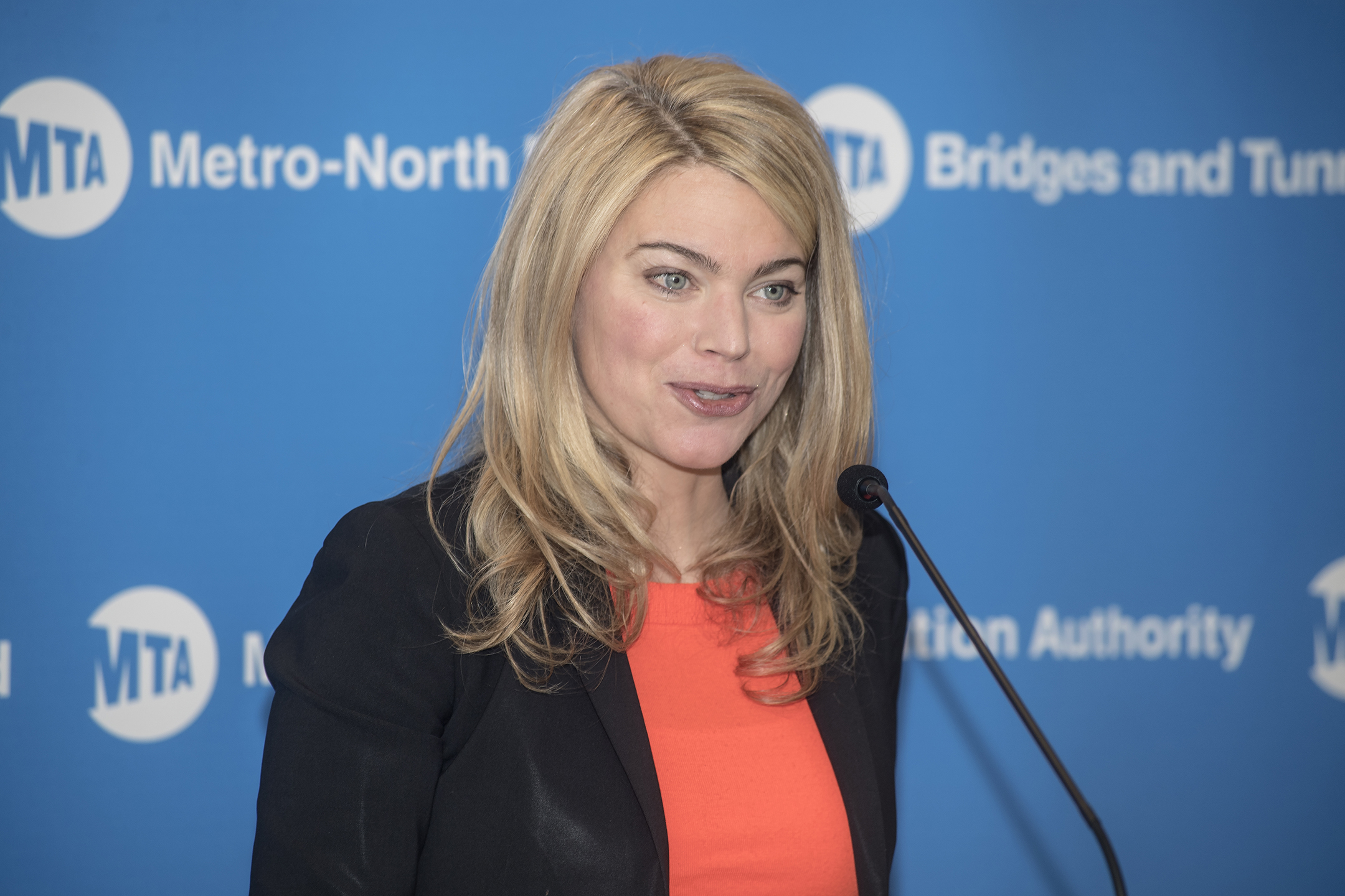 The Metropolitan Transportation Authority (MTA) on Friday, March 9, 2018, announced eight winners of the MTA Genius Transit Challenge, including two who plan to immediately reinvest their cash awards from the competition and contribute seed money to advance their ideas in conjunction with the MTA. “It is critically important for government agencies to remember that sometimes, the best ideas come from the outside. I commend Governor Cuomo and the MTA on completion of a successful Genius Challenge. The contest succeeded in doing exactly what it set out to do -- inspire new ideas for how to solve the very old problem of modernizing the New York City Subway. I also congratulate the winners for coming up with new concepts in cars, communications and signals technology -- concepts that will assist this system and likely many others across the country,” said Sarah Feinberg, MTA Genius Challenge judge and former administrator of the Federal Railroad Administration. Photo: Metropolitan Transportation Authority / Patrick Cashin